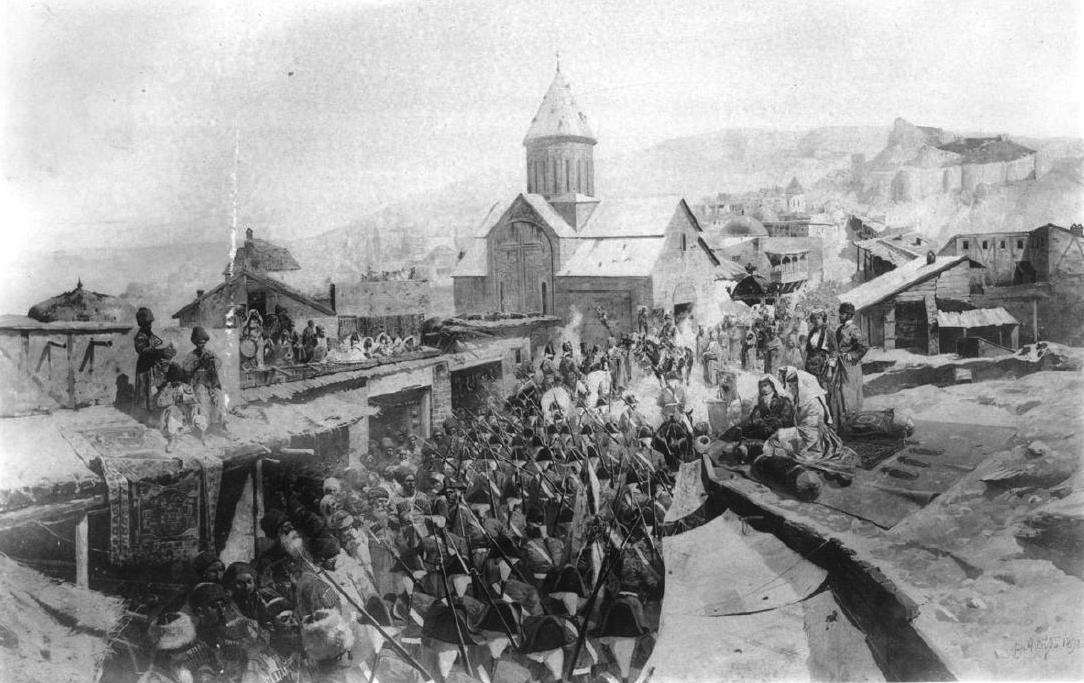 Major-General Lazarev's 17th Jagger Regiment entering Tiflis on November 26, 1799